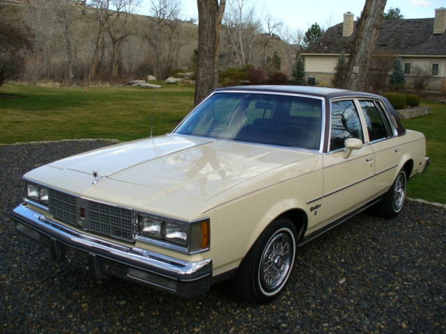 An Oldsmobile Cutlass Supreme Brougham (4-door) from 1984.